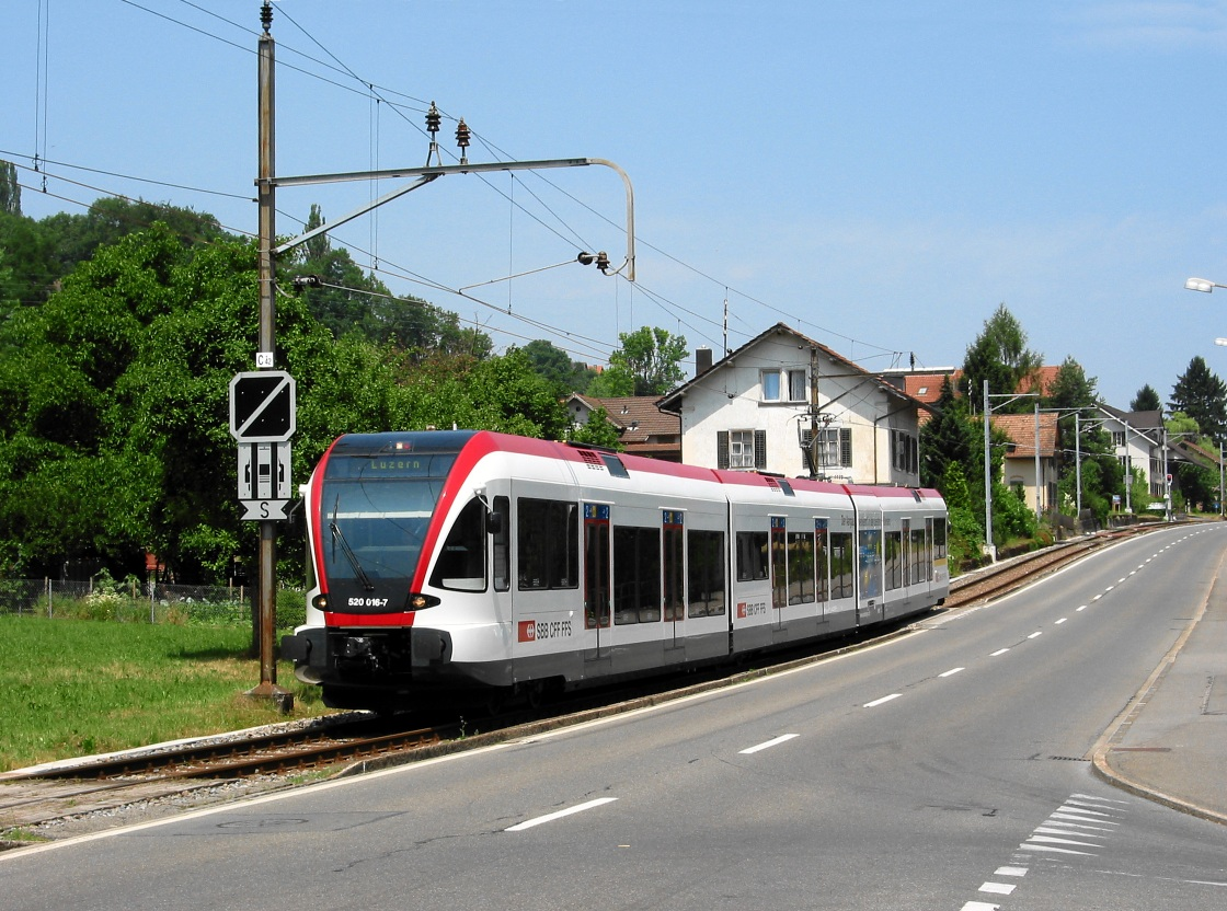 Swiss EMU type RABe 520 in Beinwil am See.